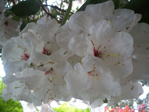 Magnified rhododendron's flowers of le Bois des Moutiers. It is not the species R. decorum